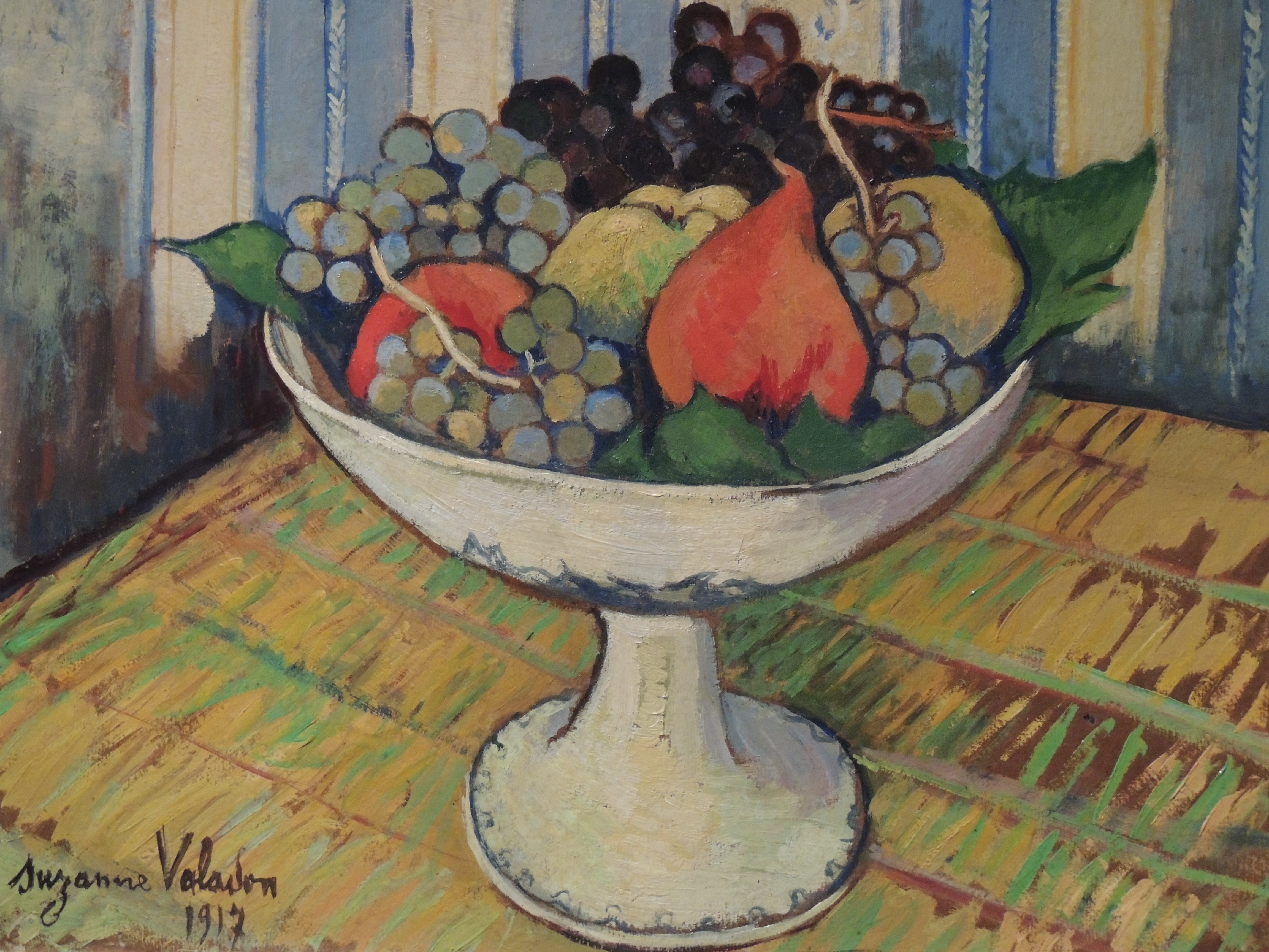 Suzanne Valadon, Bowl of Fruits, oil on cardboard